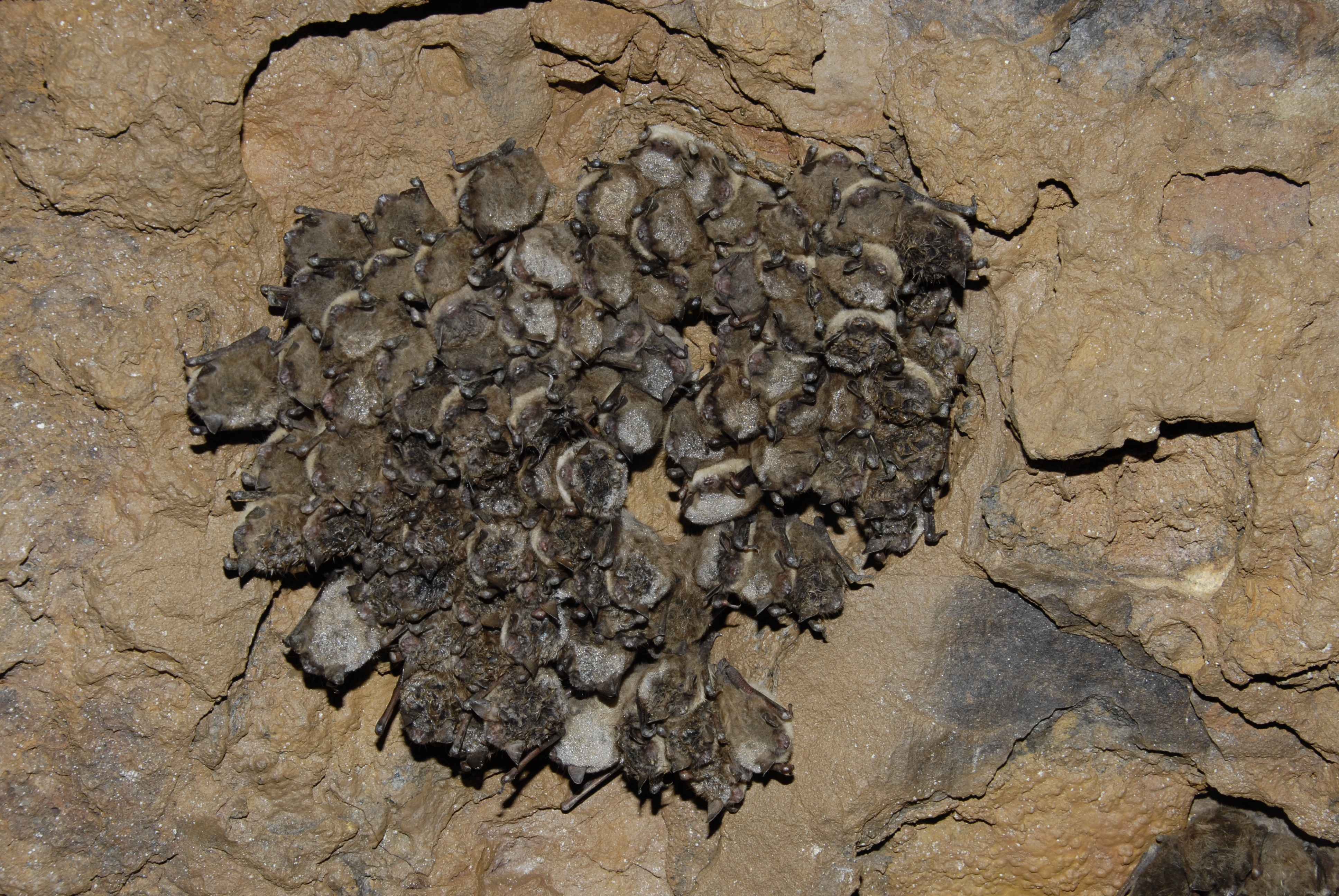 Image title: Myotis lucifugus Image from Public domain images website